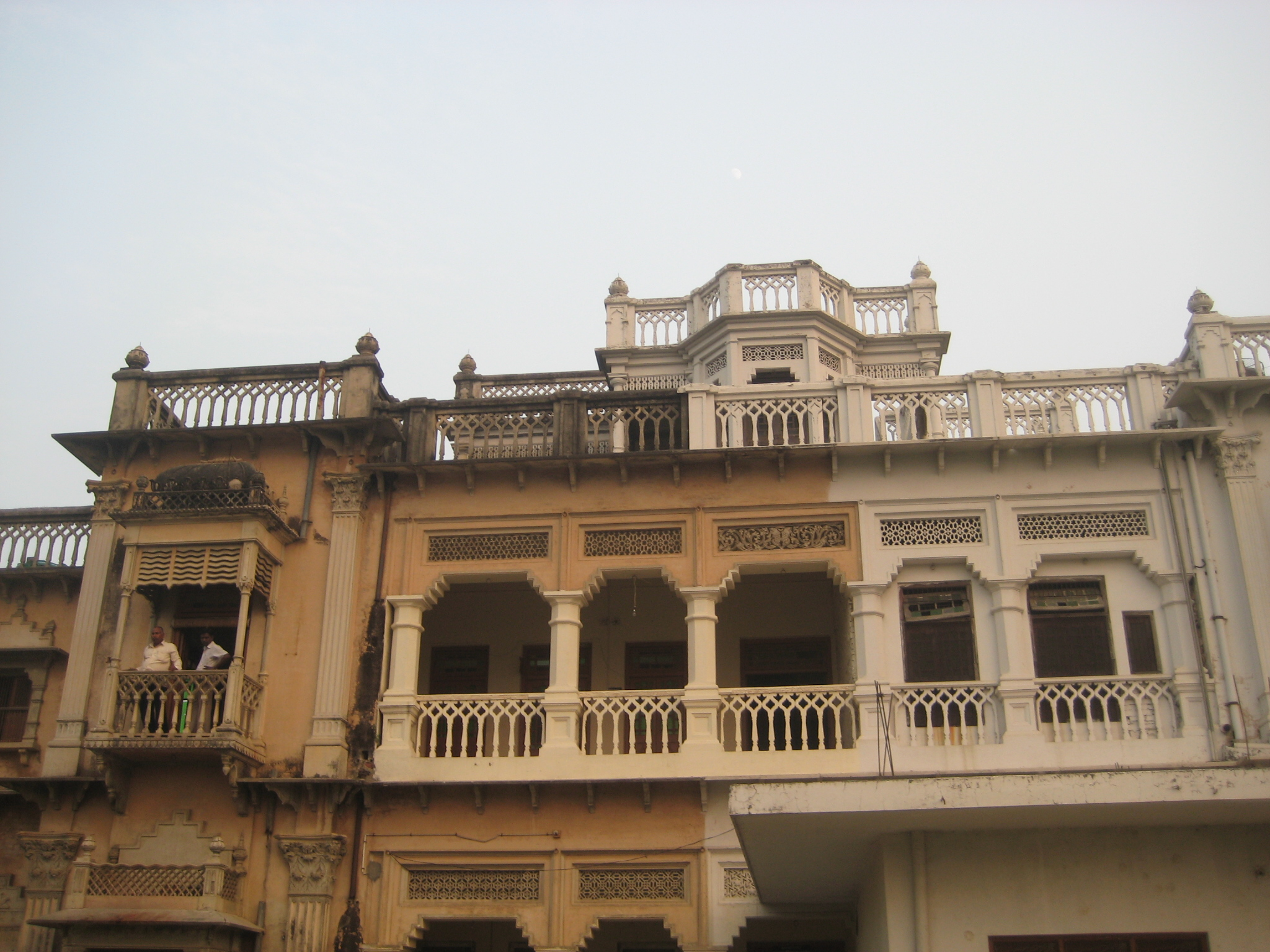 Acharya Narendra Dev's family mansion in Faizabad, UP, India